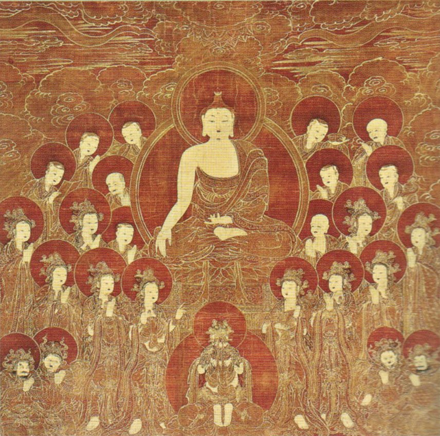 Shakyamuni and the Eight Great Bodhisattvas, Korea, Chosôn Dynasty, 16th Century, ink, color & gold on silk, 93 x 86 cm., Honolulu Museum of Art